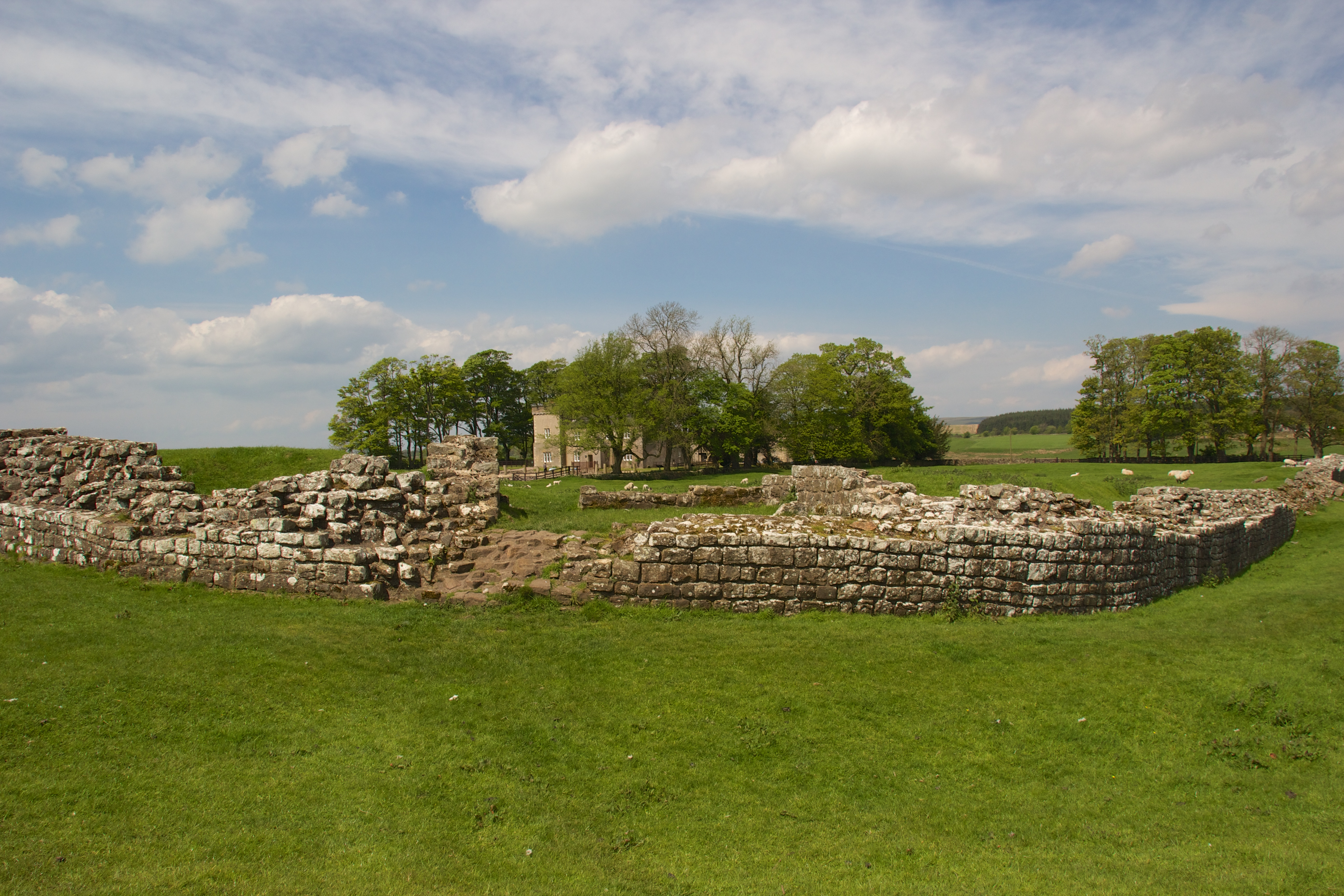 Birdoswald roman fort on Hadrian's Wall.